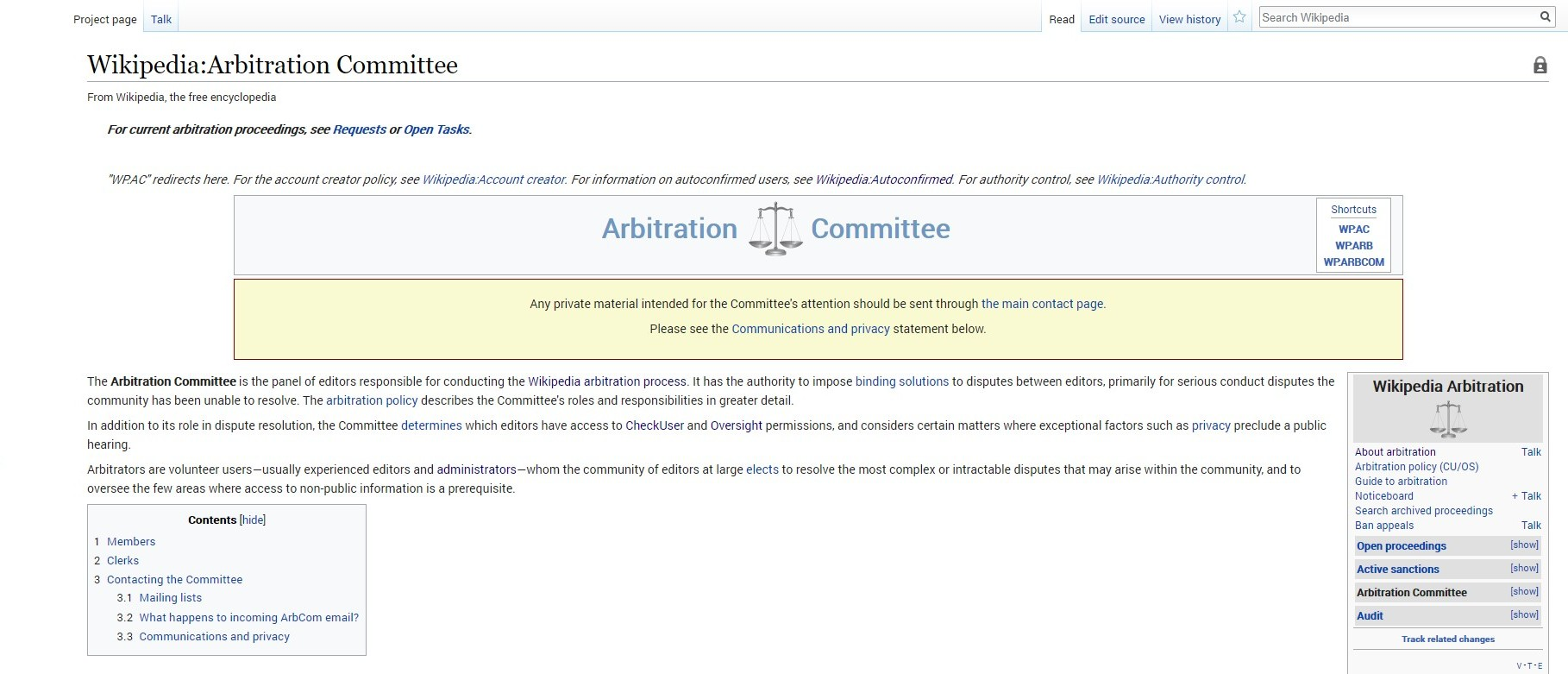 Screenshot of the current Arbitration Committee description page, March 7th 2019.